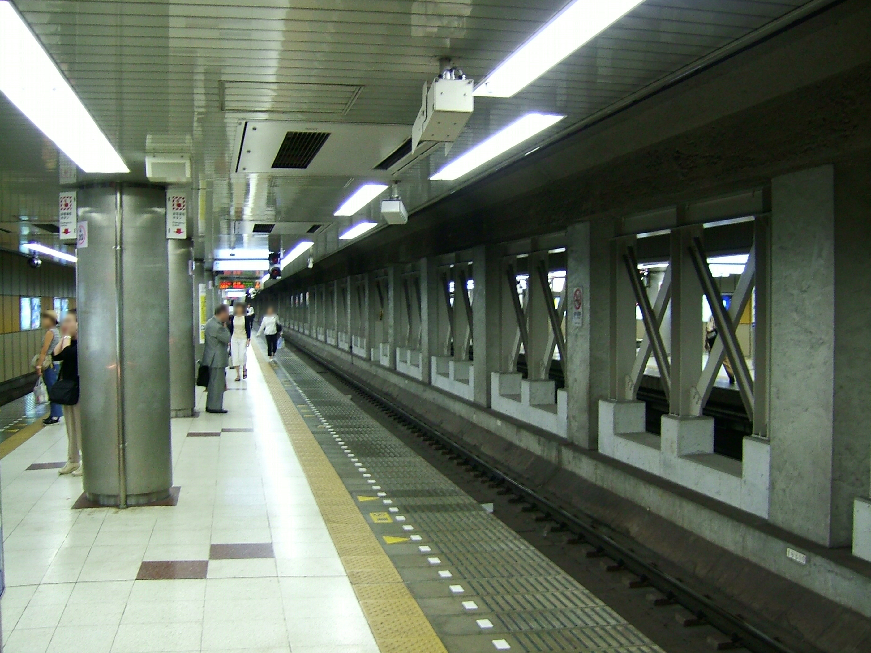 The platforms at Oshiage Station(Keisei Oshiage Line and Toei Asakusa Line)